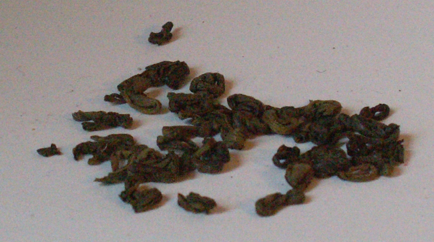 Own picture. Some gun powder green tea.